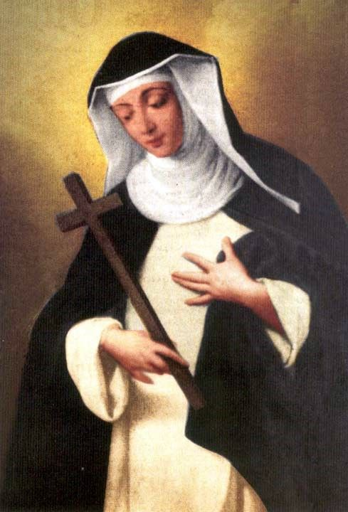 A painting of Blessed Agnes of Langeac.